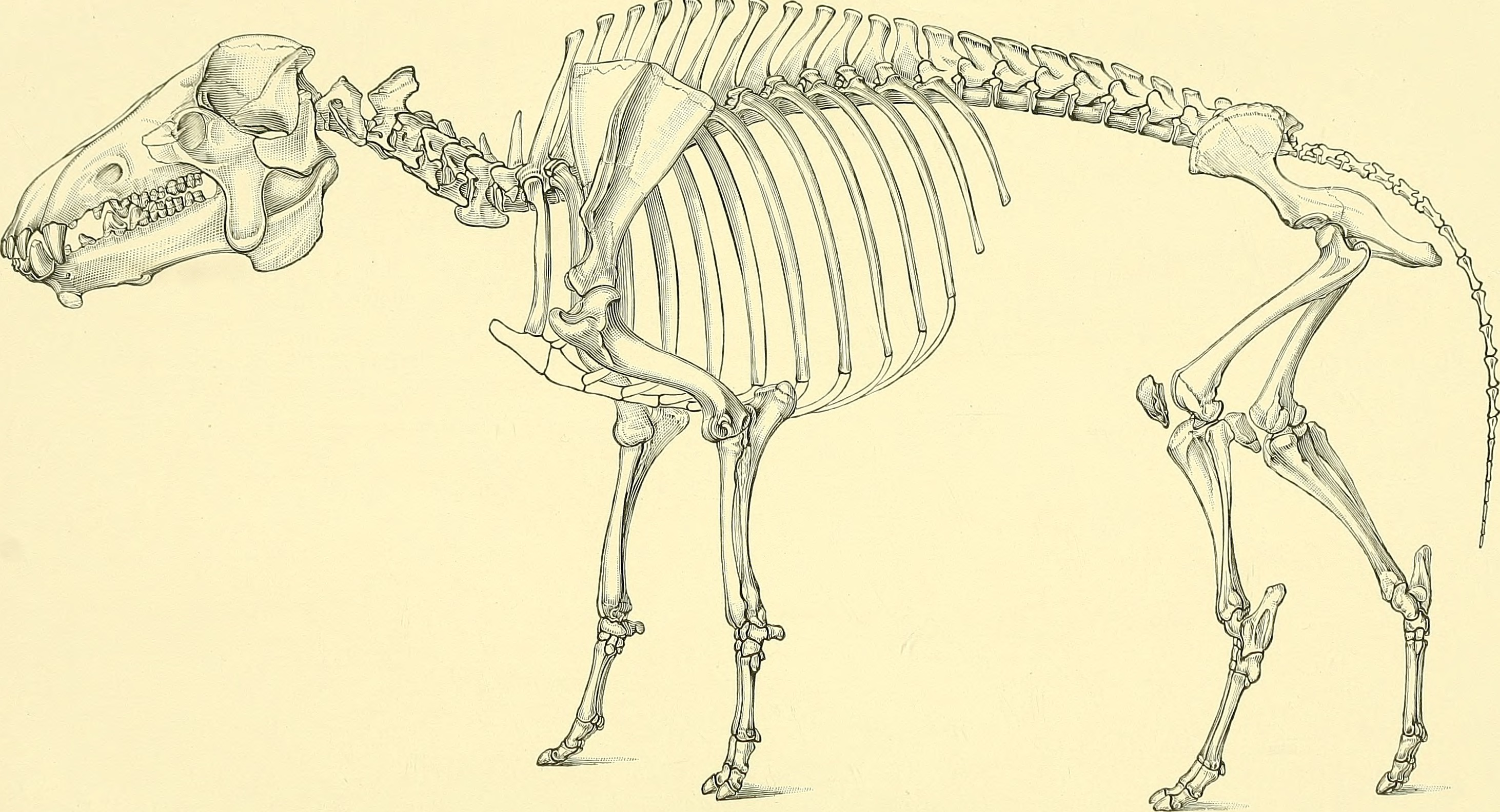 Title: The American journal of science Year: 1880 (1880s) Authors: Subjects: Science Publisher: New Haven : J. D. & E. S. Dana Text Appearing Before Image: Am. Jour. Sci., Vol. XLVII, 1894. Plate IX. Text Appearing After Image: '